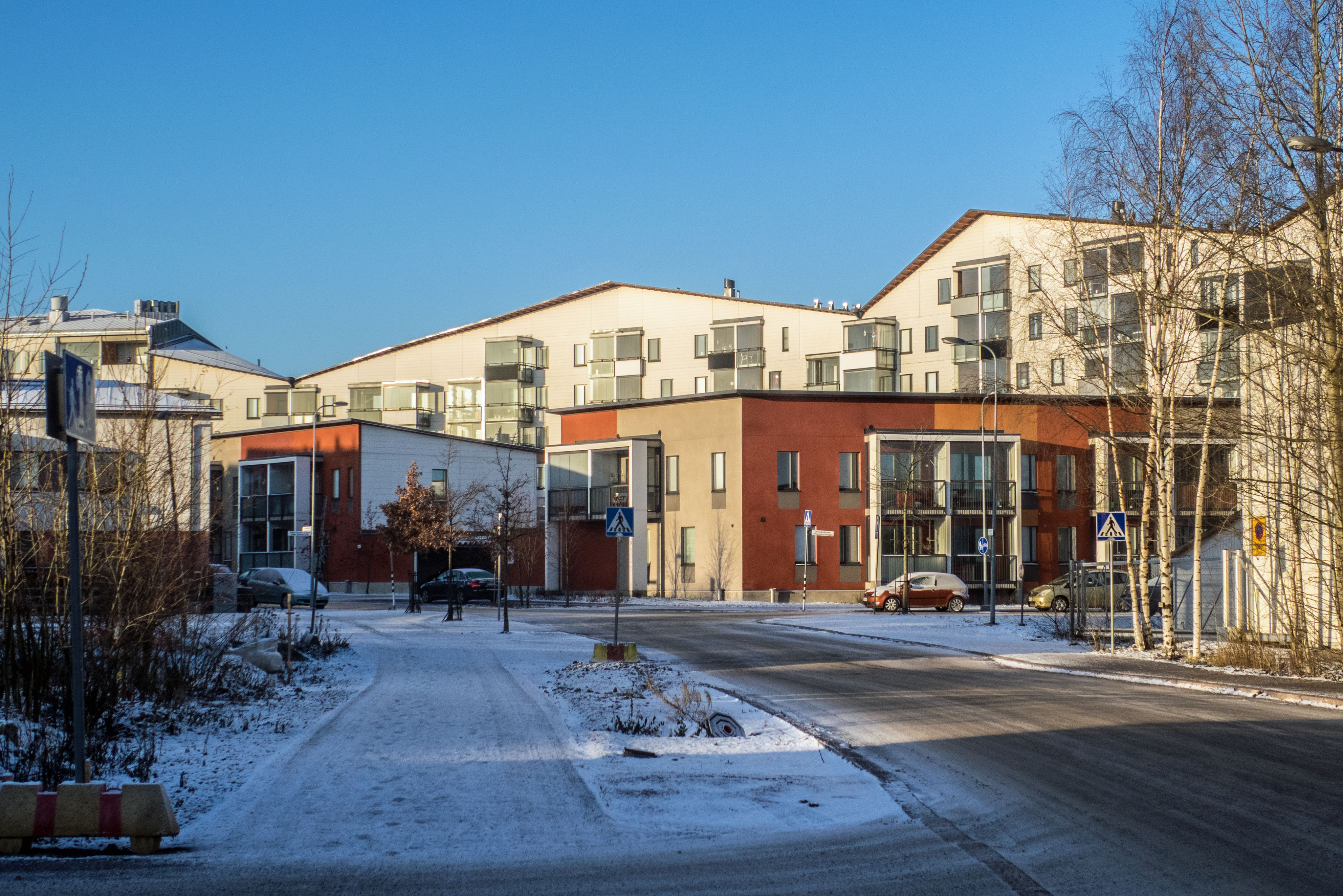 Ormuspelto